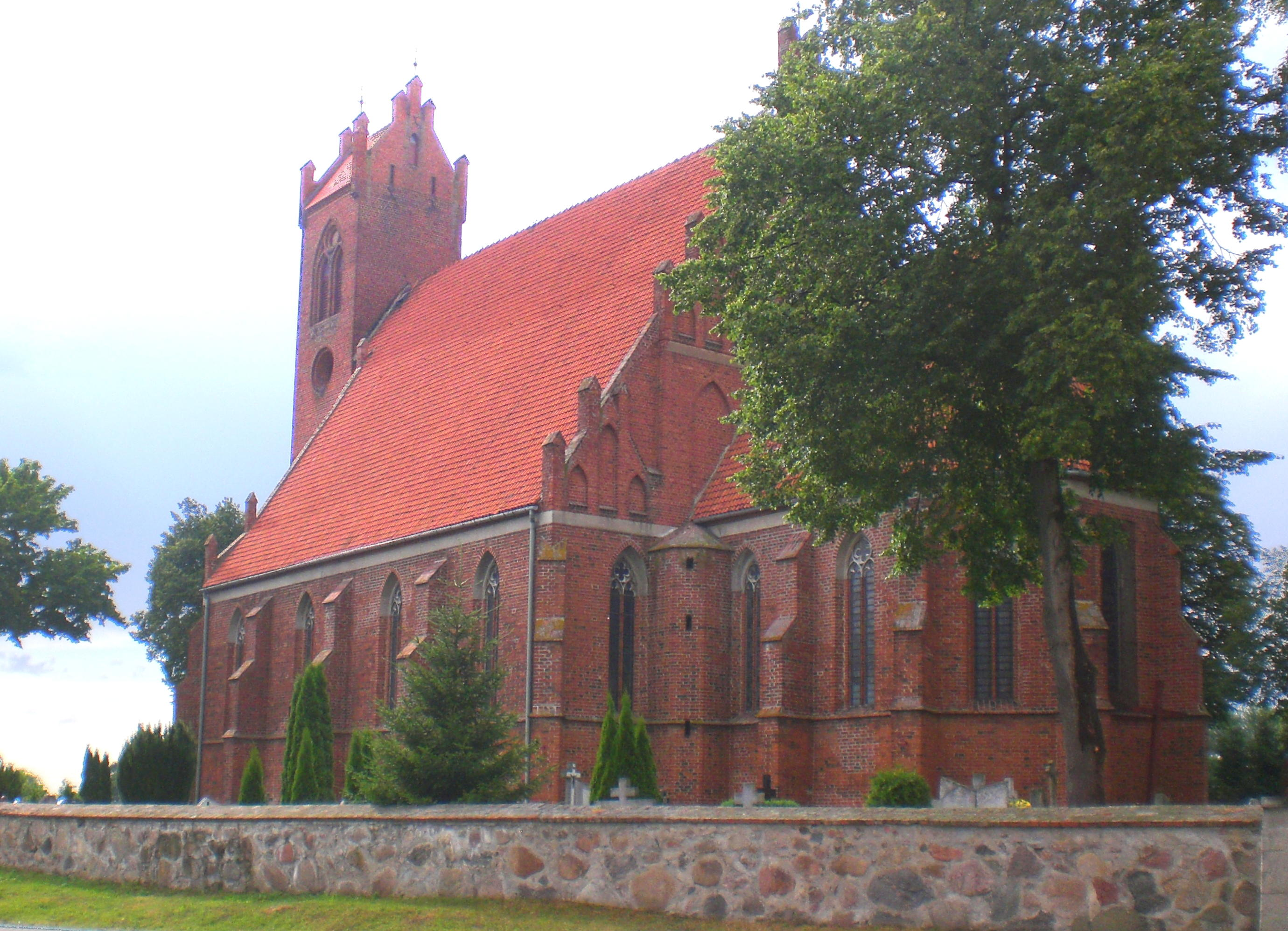 Our Lady of the Scapular church in Postolin